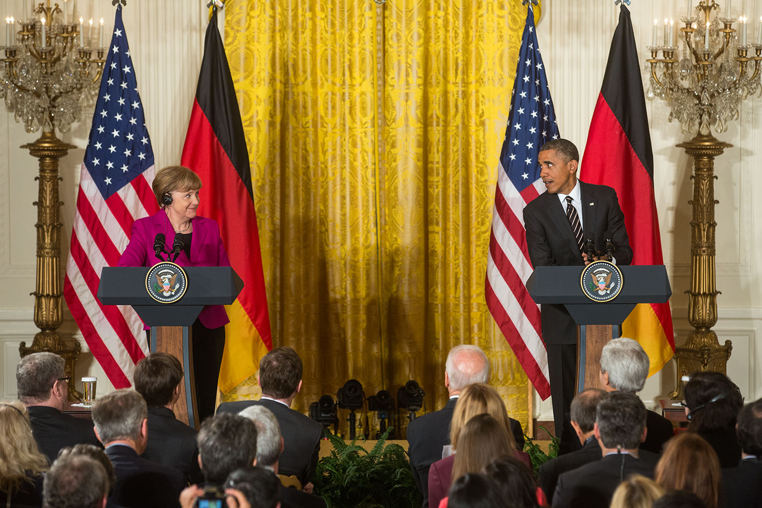 President Barack Obama and Chancellor Angela Merkel of Germany participate in a joint press conference in the East Room of the White House